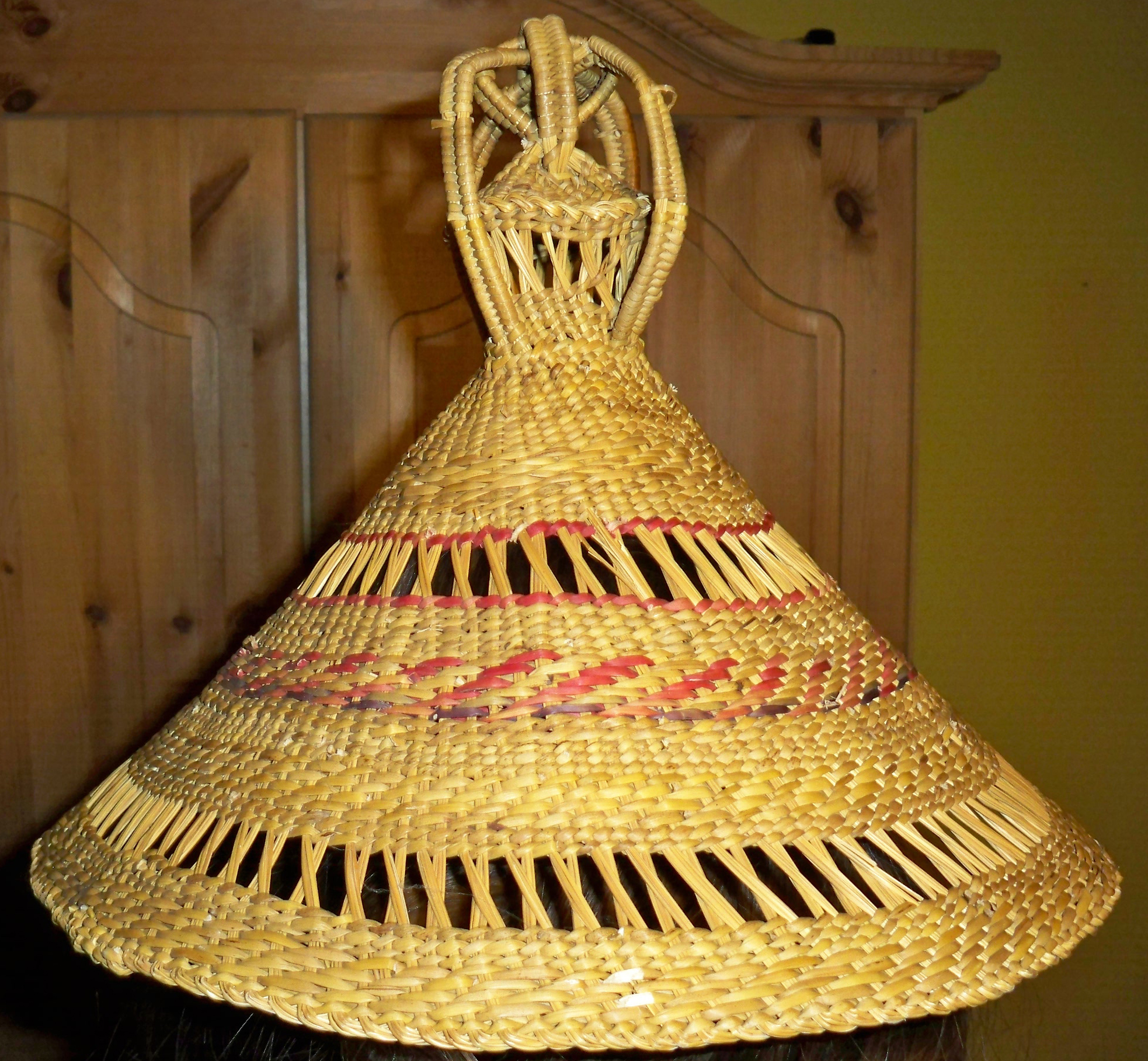 Mokorotlo - Basotho hat, traditional headwear of the Basotho